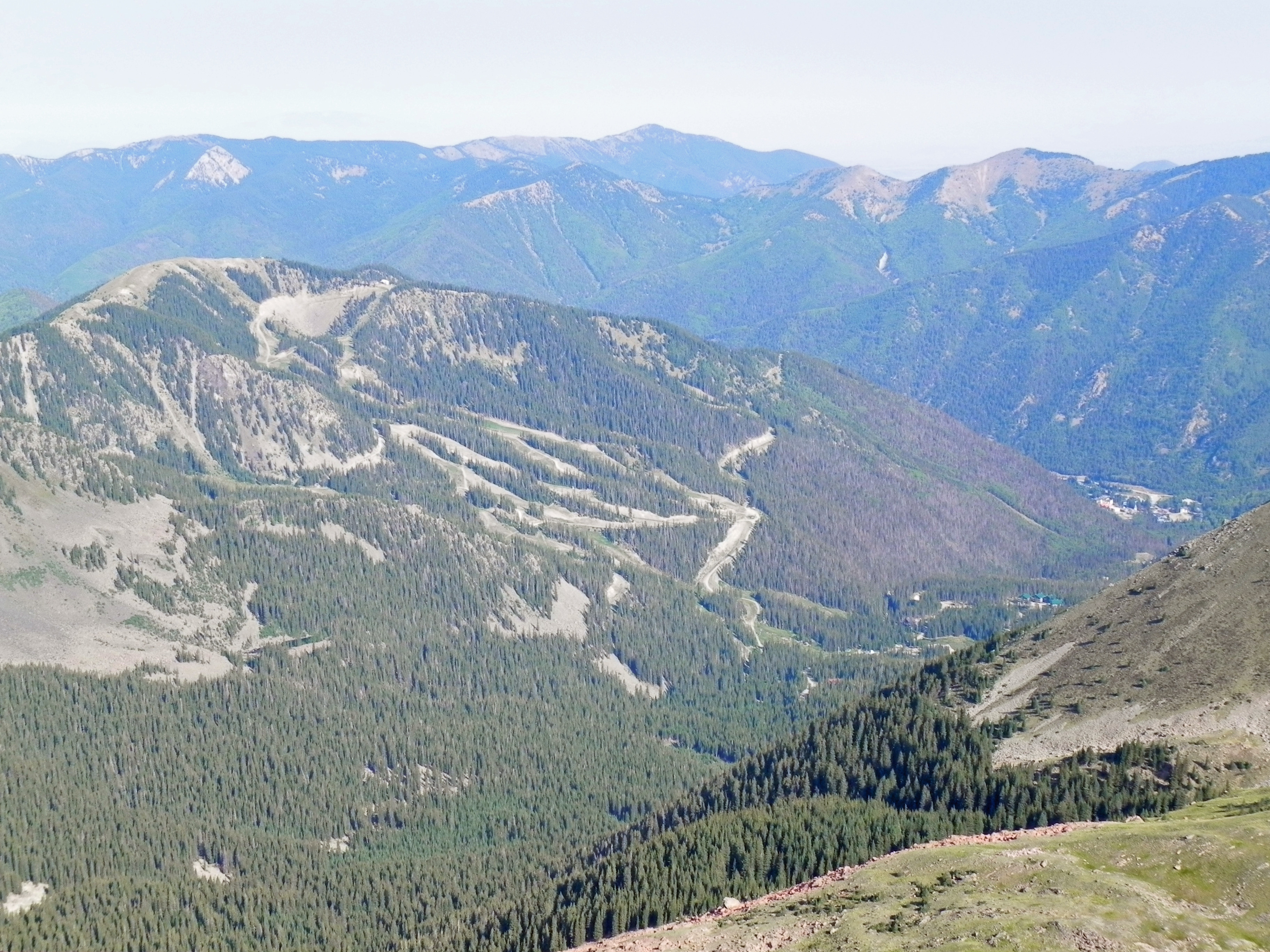 Taos Ski Valley, New Mexico viewed from Wheeler Peak in the Sangre de Cristo Mountains of Carson National Forest.